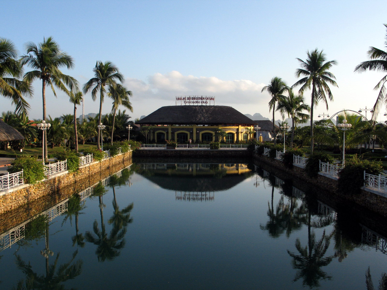 Scenery on Tuần Châu island.